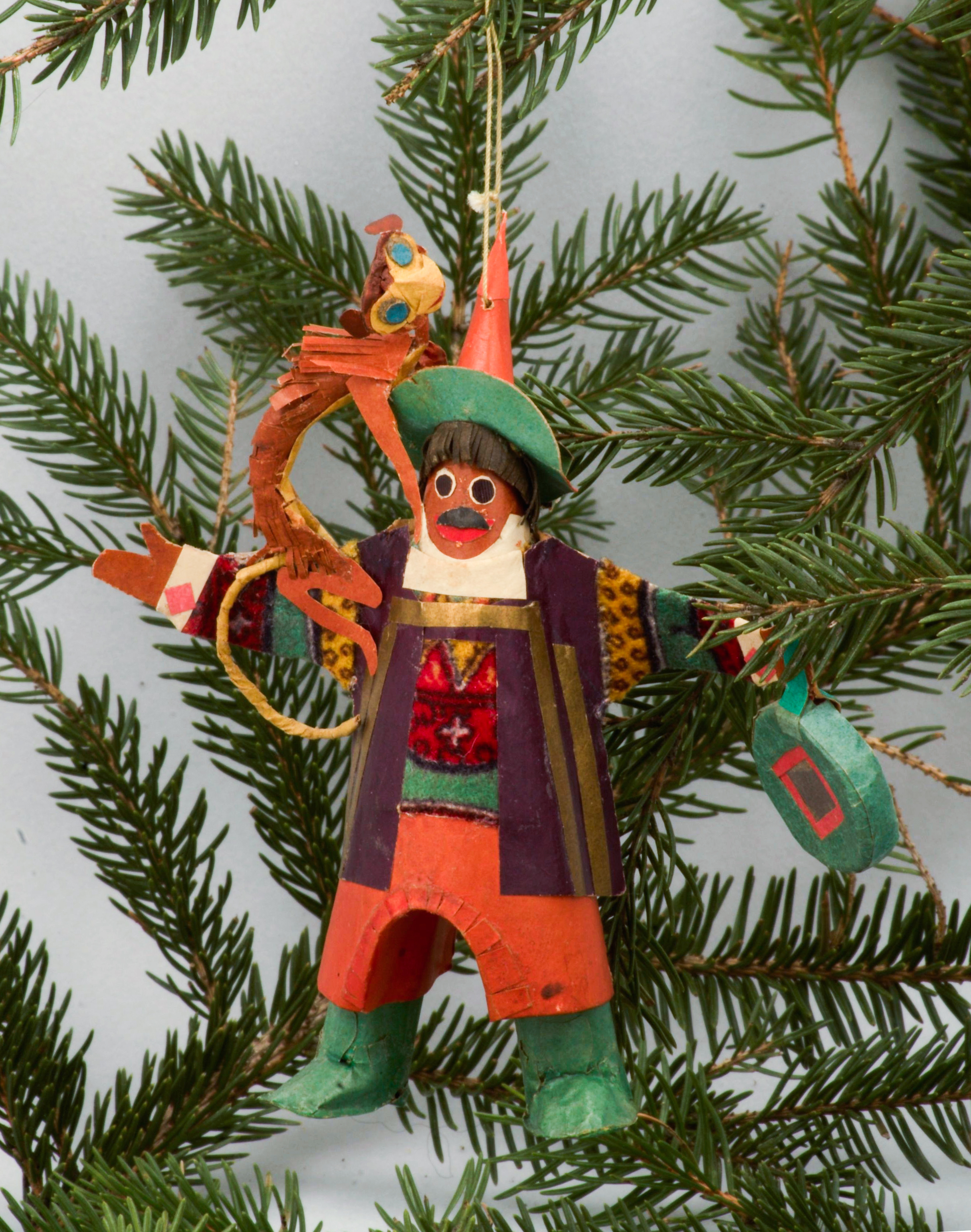 Christmas toys - Gypsy with monkey. Made of paper and velvet by Józef Gosławski.